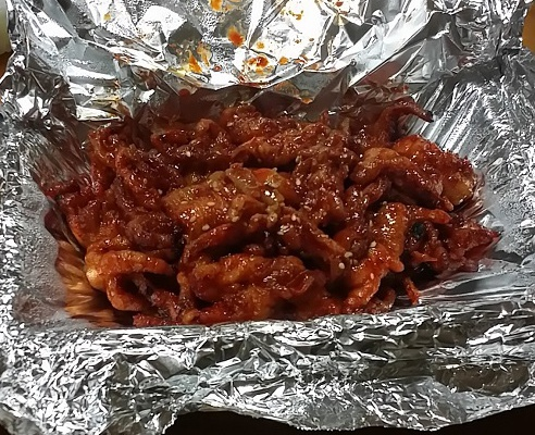 Korean boneless chicken feet.